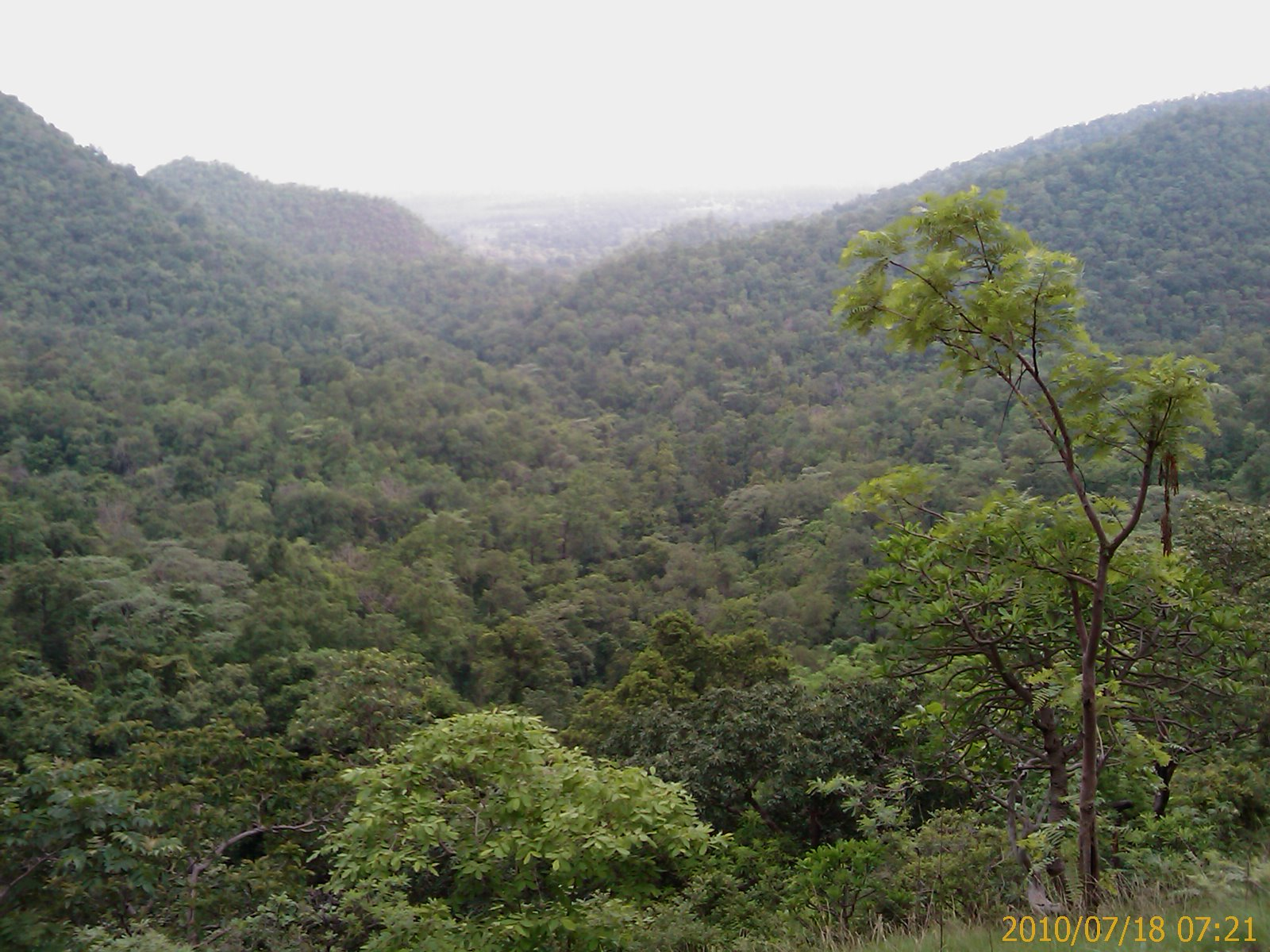 Gandhamardan_Range_Bargarh